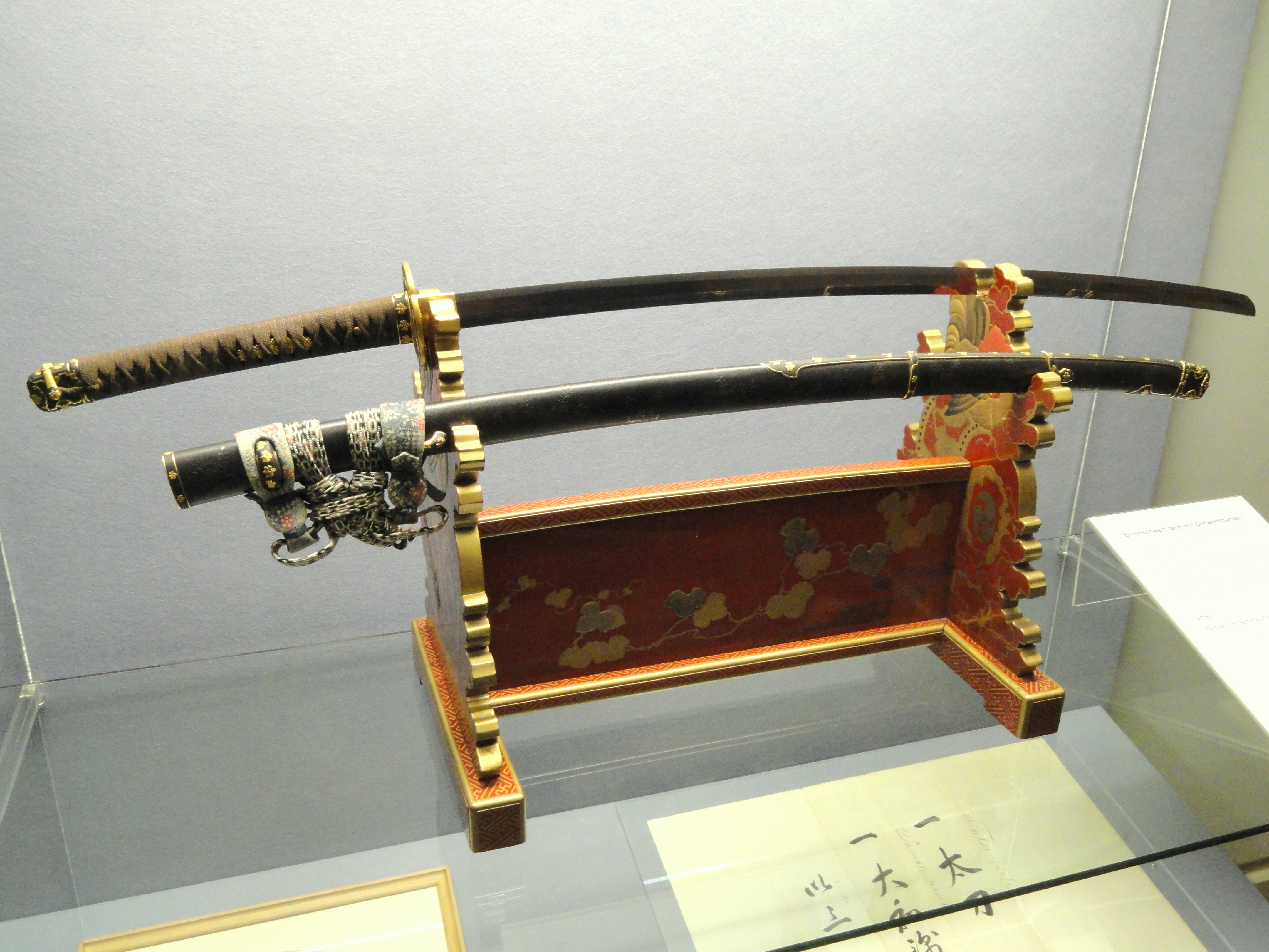 Exhibit from the Japanese collection of the Staatlichen Museums für Völkerkunde München, Maximilianstraße 42, Munich, Germany. Japanese Sword given to Philipp Franz von Siebold by Tokugawa Iemochi on 11 Nov 1861.